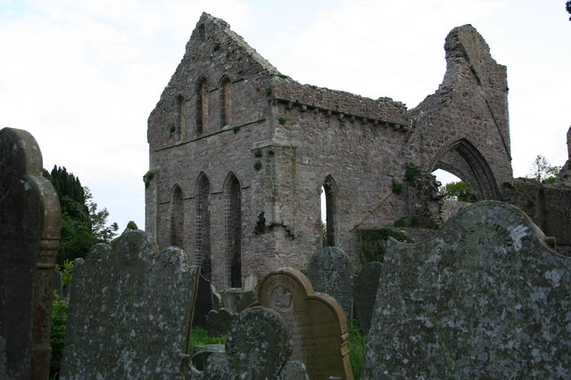 Grey Abbey Co Down